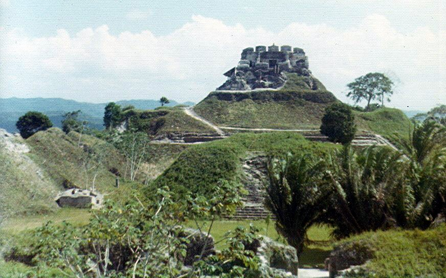 Xunantunich, Belize, 1976. View across the main plaza towards the "Castillo". Photo by Infrogmation, 1976.